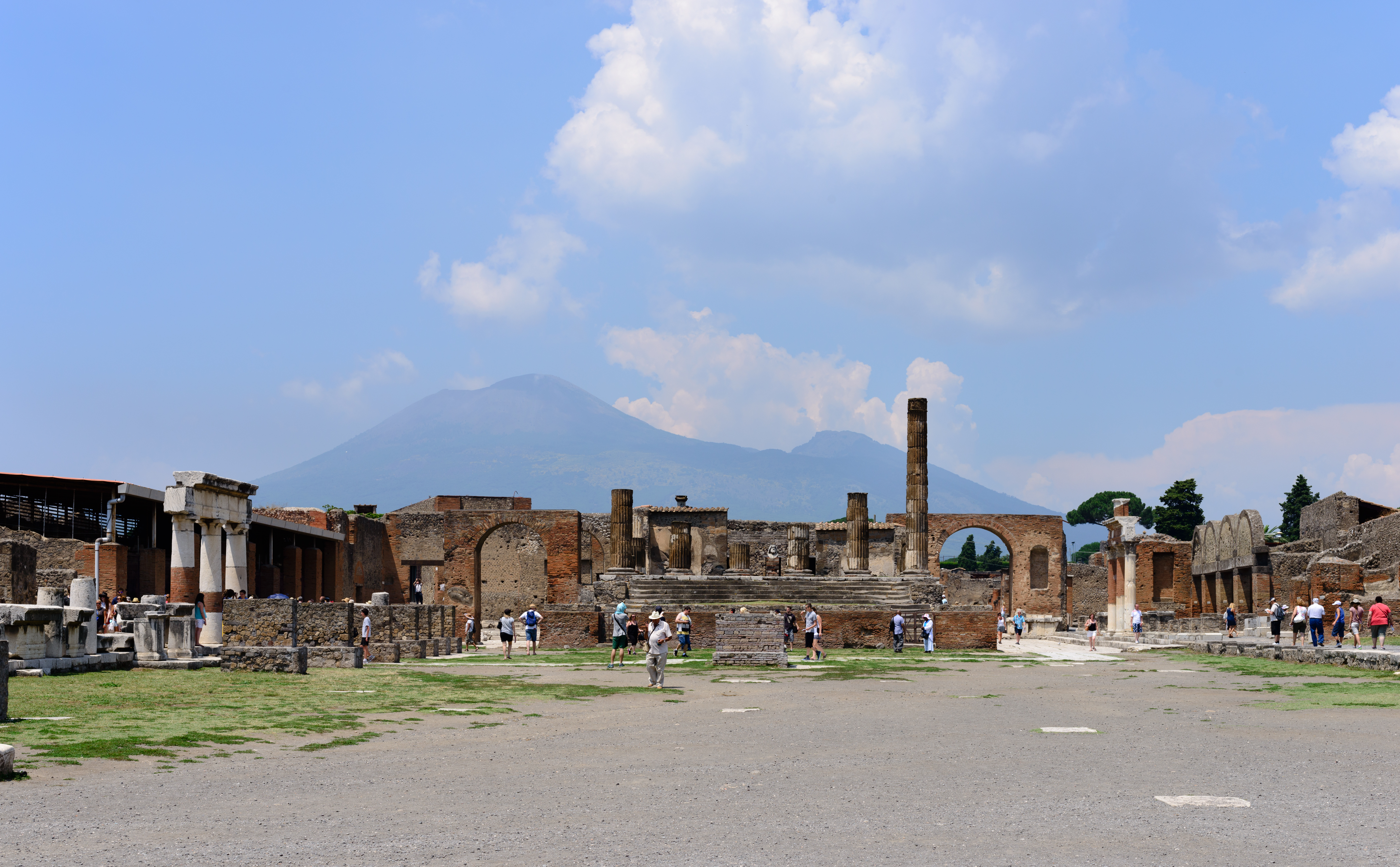 Forum, ancient Roman Pompeii, Campania, Italy.